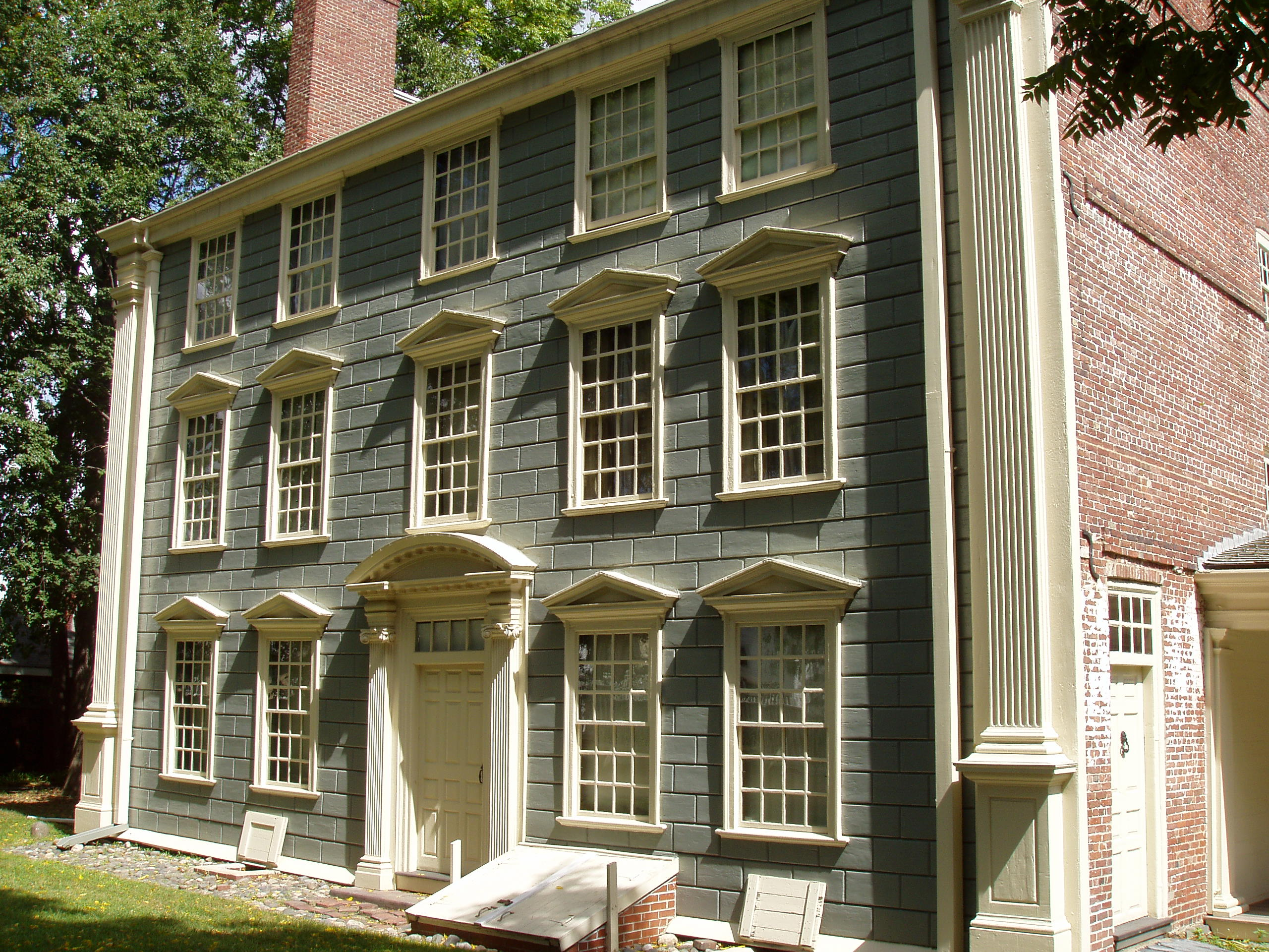 Isaac Royall House, Medford, Massachusetts - West (rear) facade